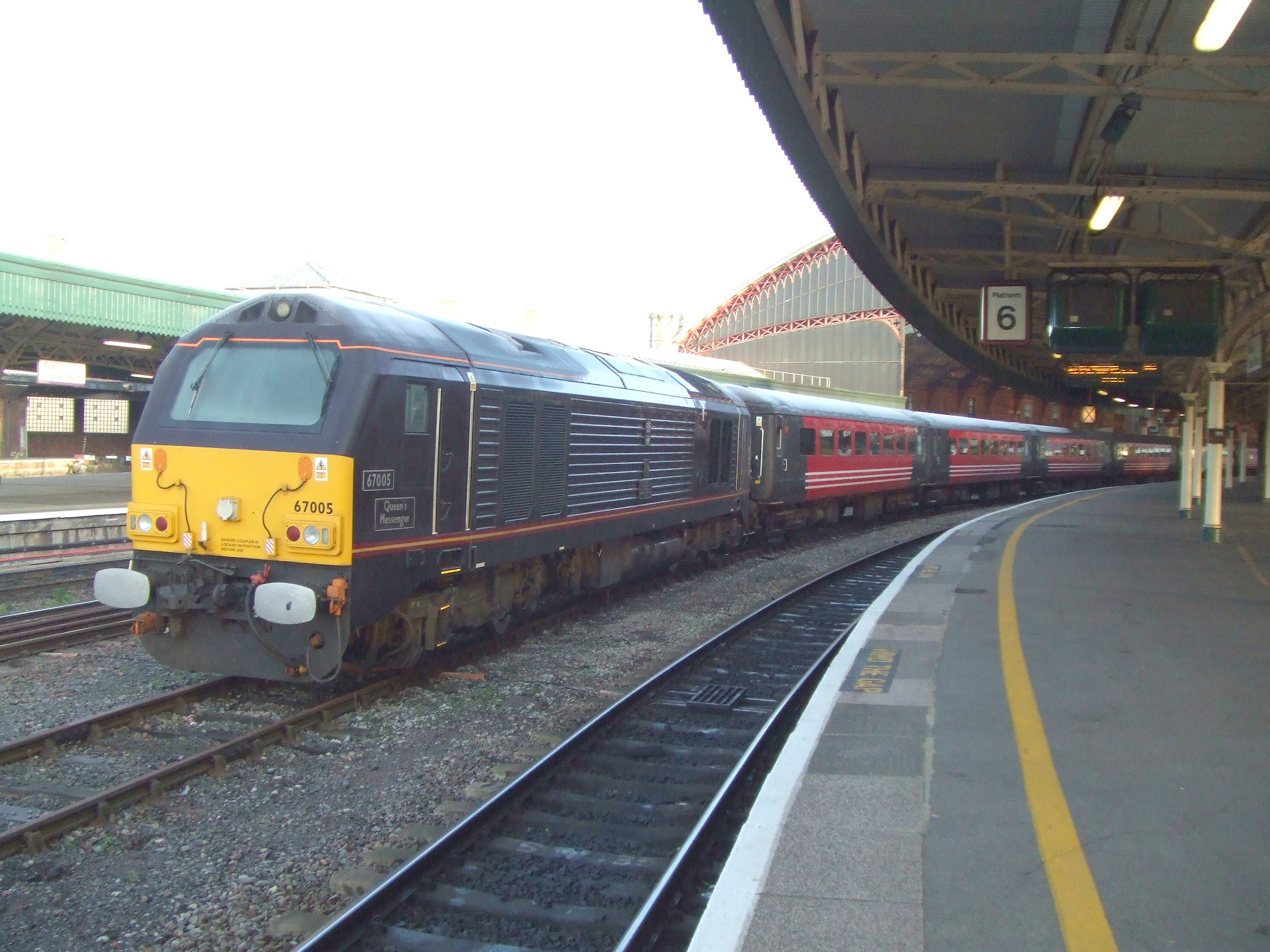 Alstom Class 67 3,200 hp Bo-Bo No.67 005 "Queen's Messenger" of Angel Trains/EWS in Royal Claret livery with an ecs working of debranded Virgin Mk.IIe coaches at Bristol temple Meads, 2/08.